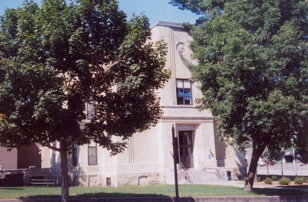 The courthouse for Jackson County, Wisconsin in Black River Falls, Wisconsin.